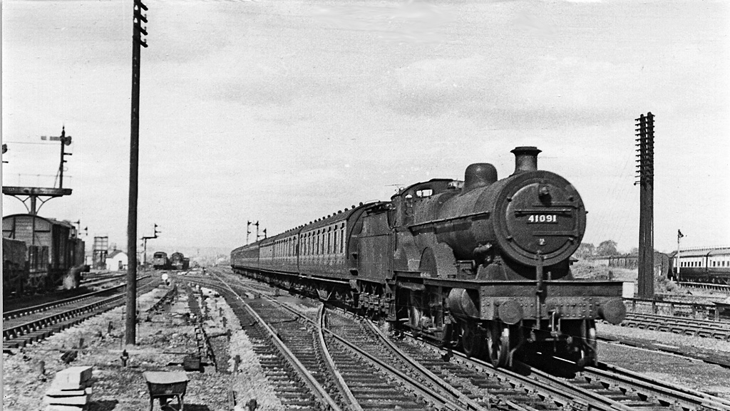 Up stopping train at Cricklewood, View NW, towards Bedford and the North; ex-Midland St Pancras - Bedford - Leicester etc. main line, with the great Brent Sidings complex on the left, Cricklewood Carriage Sidings on the right. The train is a stopping train from Bedford to St Pancras, headed by LMS 6'9" Compound 4-4-0 No. 41091.